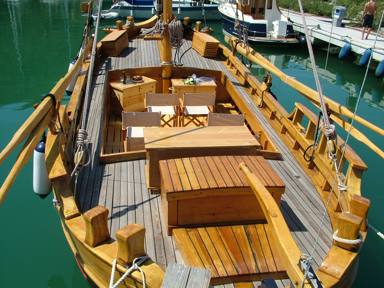 The interior of traditional bracera "Our Lady of the Sea" prepared for its guests taken in the ACI Marina Dubrovnik